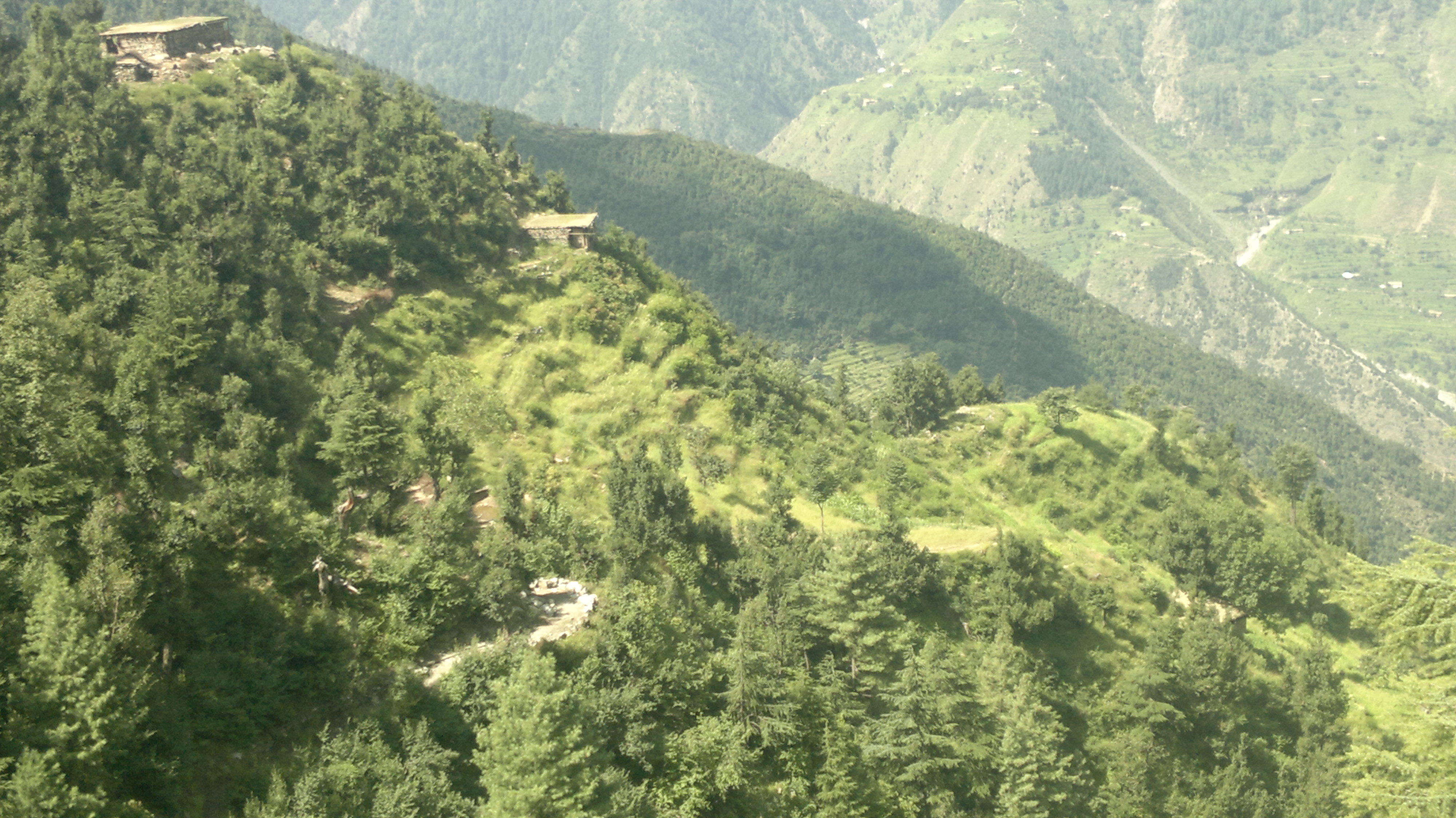 Curved fields at Bhoin Shaikhdara